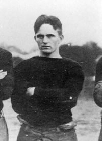 Auburn halfback Kirk Newell cropped from team photo